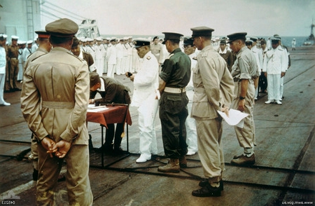 Japanese Lieutenant General Hitoshi Imamura, Commander of the Japanese 8th Area Army, signing the instrument of surrender on board the Royal Navy aircraft carrier HMS Glory (R62) off Rabaul, New Britain, 6 September 1945. Vice Admiral Jinichi Kusaka, Commander of the Japanese Southeast Area Fleet, stands by to add his signature to the document. The surrender was accepted by Lieutenant General V.A.H. Sturdee, general officer commanding First Army.